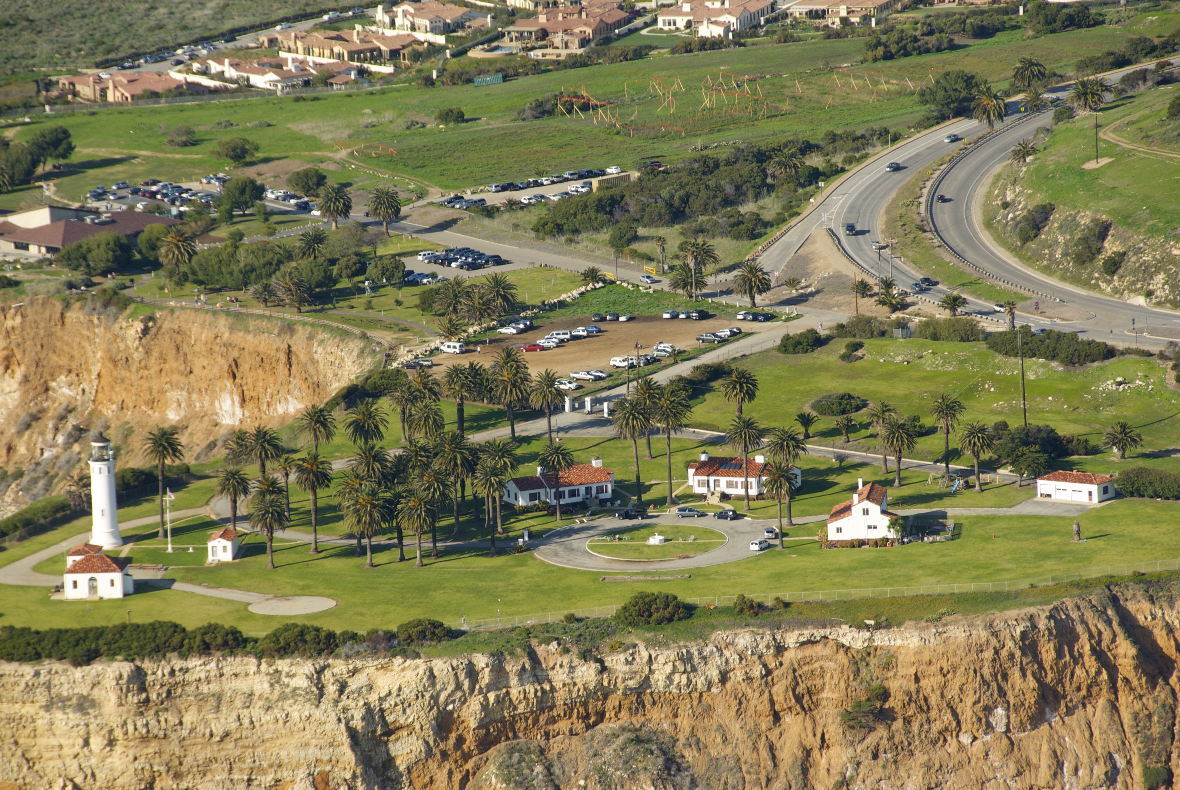 Point Vicente Light Station, Palos Verdes, California, from the air.